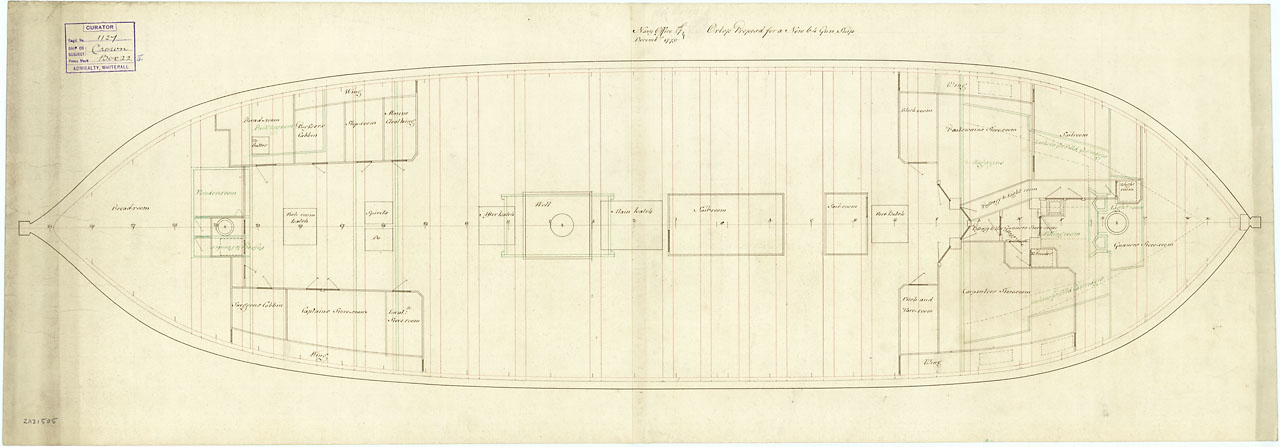 Ardent (1782); Crown (1782); Scipio (1782); Veteran (1787) Scale: 1:48. Plan showing the orlop deck with fore & aft platforms proposed (and used) for the 'New 64 Gun Ship', refering to the Crown Class: Ardent (1782), Crown (1782), Scipio (1782), and Veteran (1787), all 64-gun Third Rate, two-deckers. CROWN 1782